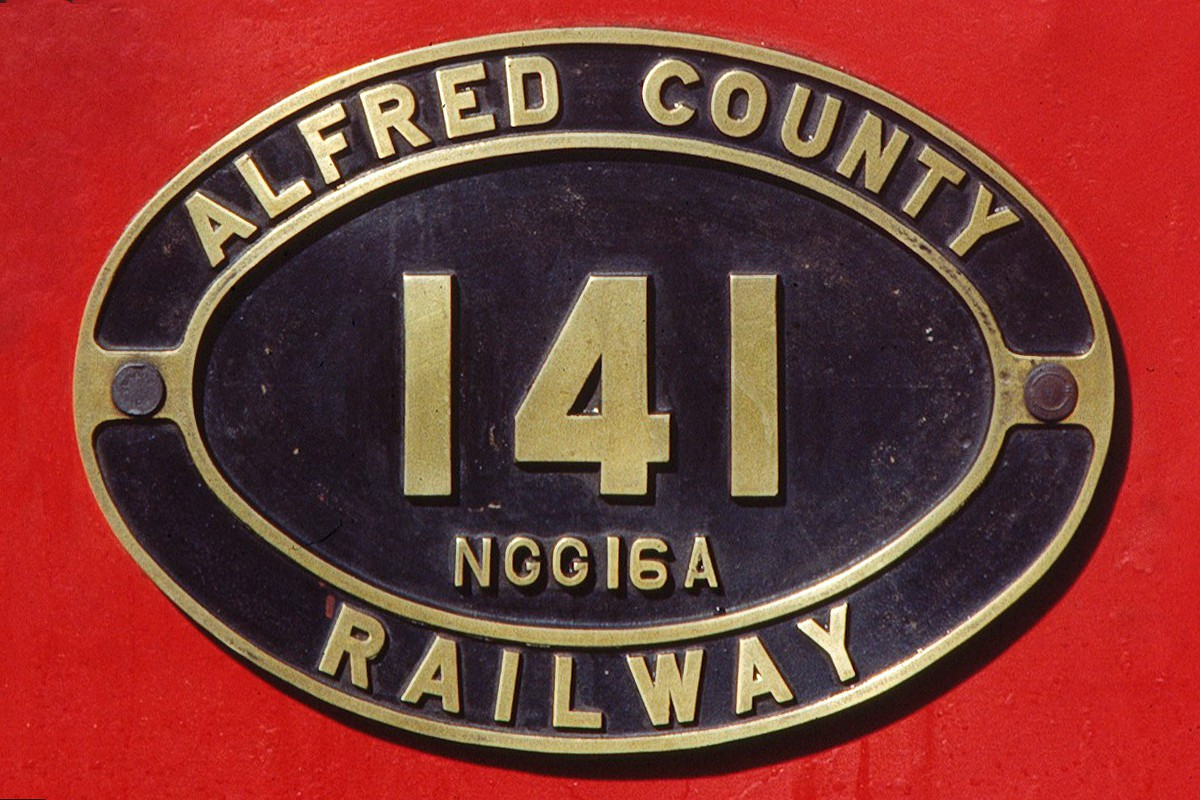 Number Plate of a locomotive of the Alfred County Railway: Locomotive class NCC16A No 141.